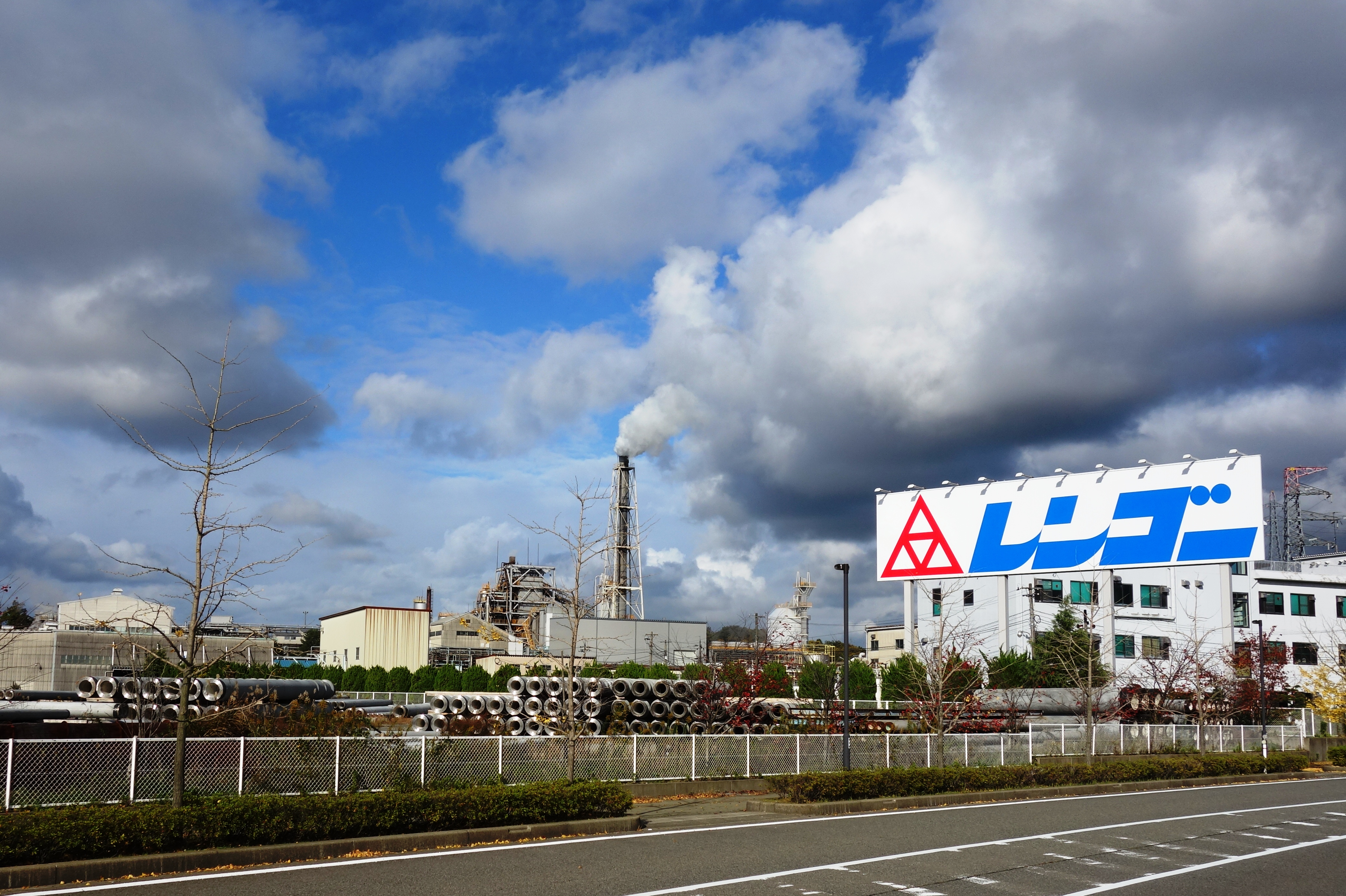 Kanazu Mill, Rengo Co., Ltd. (Awara-shi, Fukui Pref., Japan)